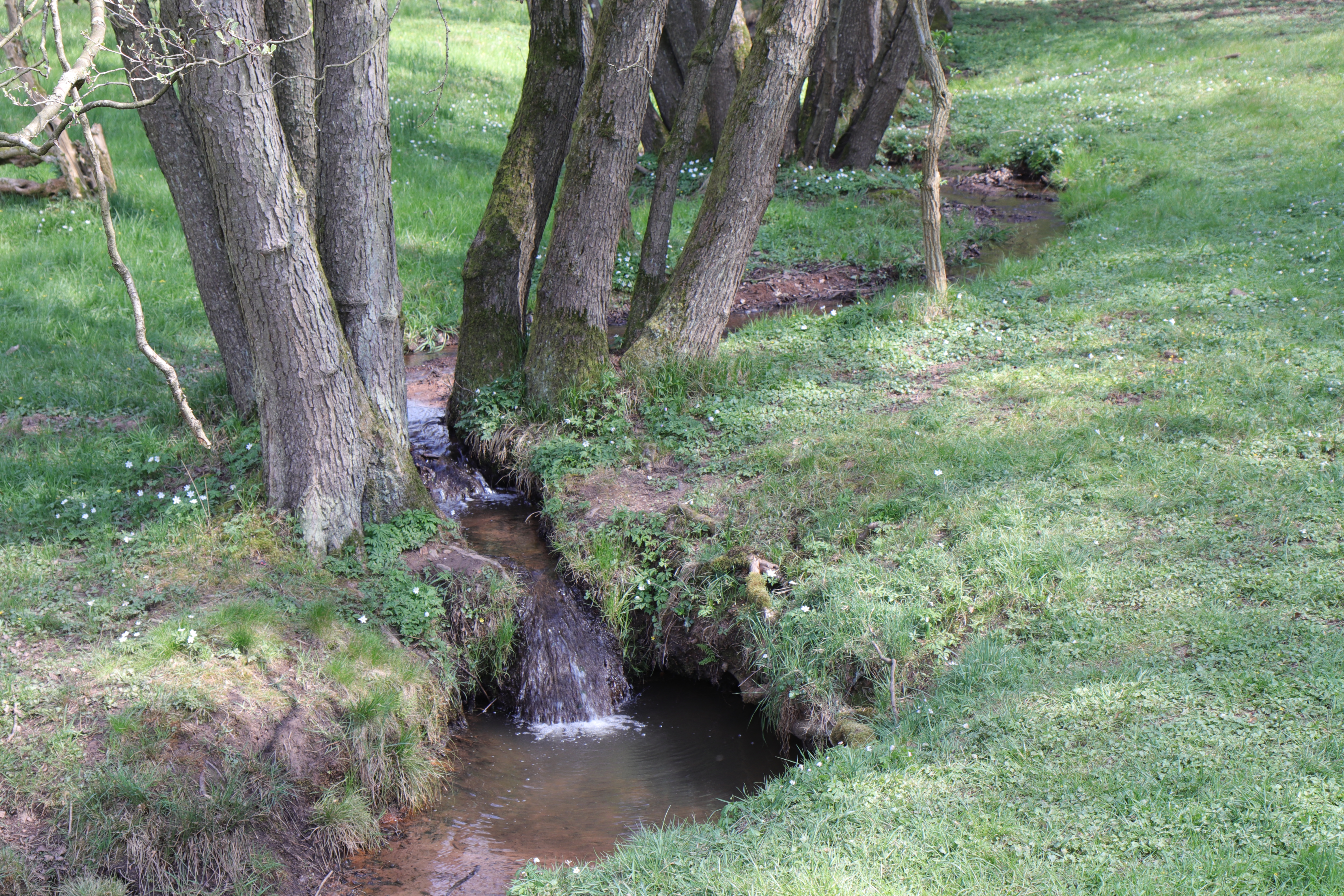 Aschaffenburg, Obersoelchgraben in "Landschaftsschutzgebiet innerhalb des Naturparks Spessart", Closeup